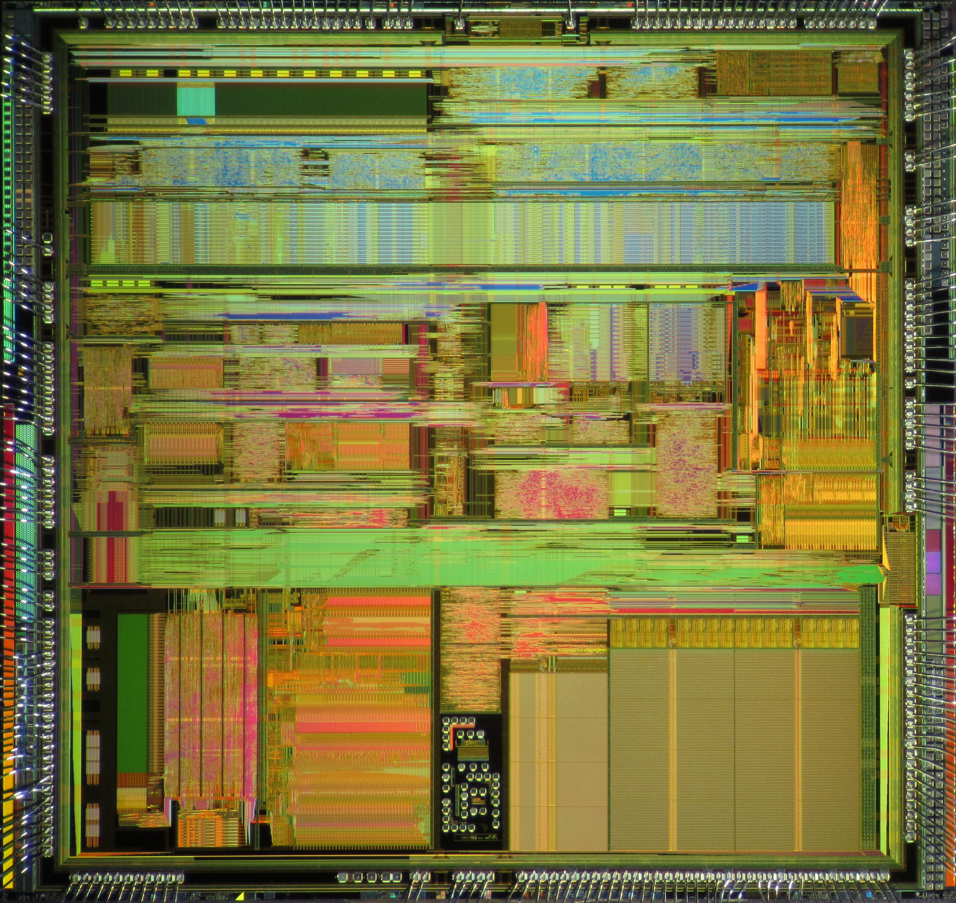 Die shot of Cyrix 5x86-100GP microprocessor.